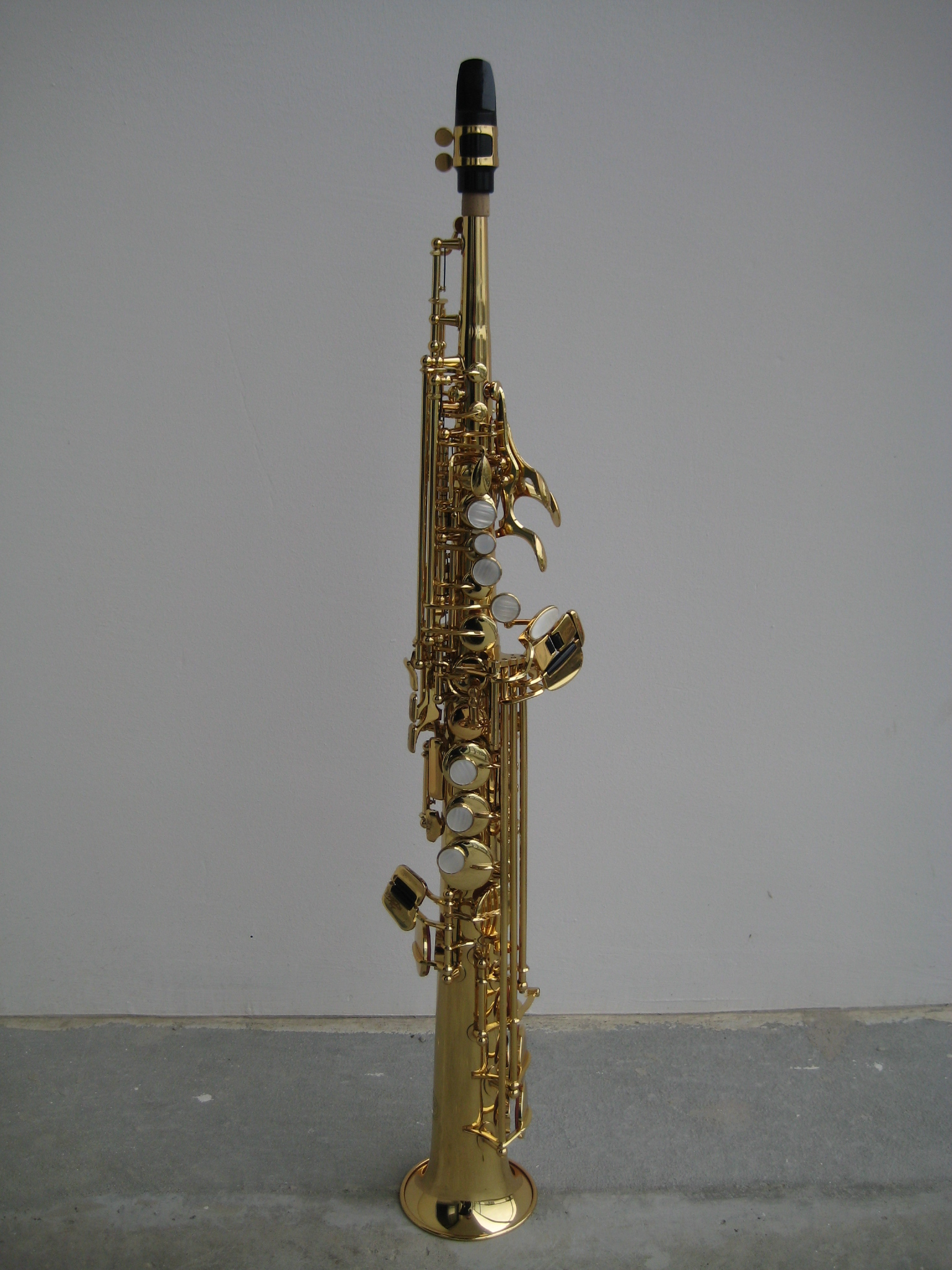 straight soprano saxophone front view